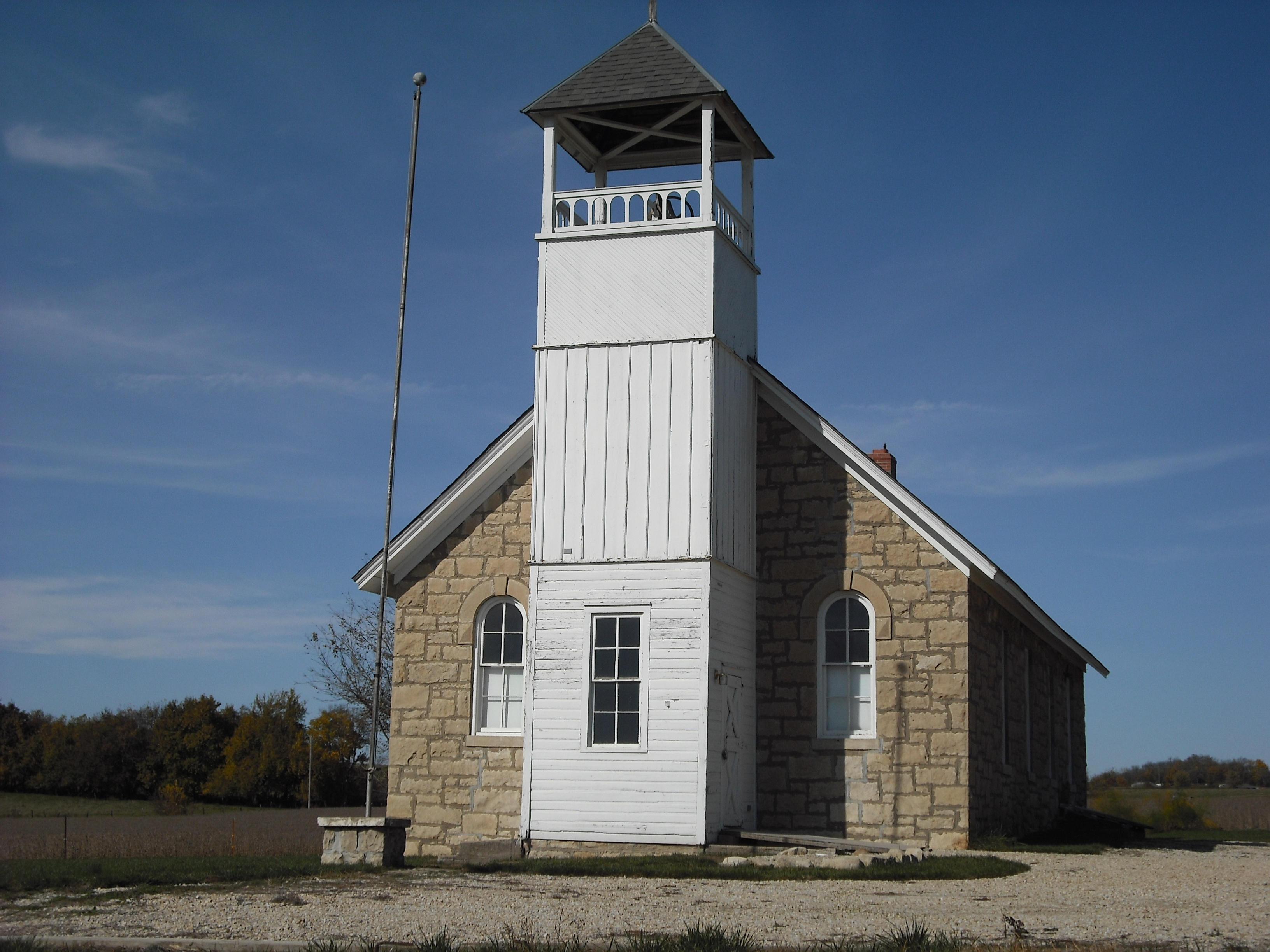 The restored Buck Creek School four miles north of Lawrence and one mile east of Williamstown in Jefferson County, Kansas.